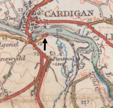 Old map showing the position of Cardigan railway station, south of the River Teifi